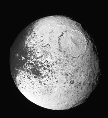 Roncevaux Terra on Iapetus, imaged by Cassini-Huygens Original caption reads "W00035213.jpg was taken on September 10, 2007 and received on Earth September 12, 2007. The camera was pointing toward IAPETUS at approximately 71,873 kilometers away, and the image was taken using the CL1 and GRN filters. This image has not been validated or calibrated."